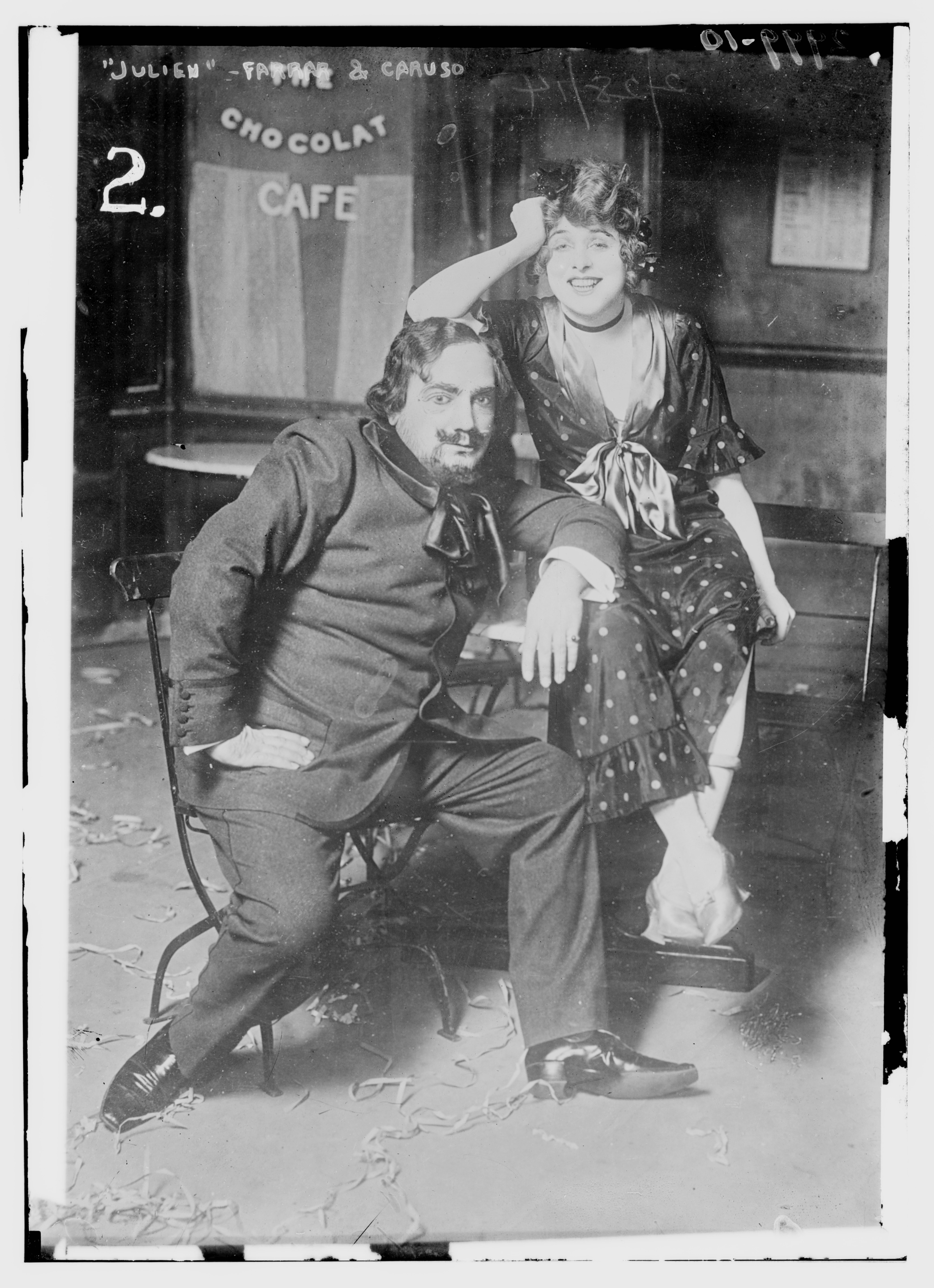 Picture of Geraldine Farrar And Enrico Caruso between ca. 1910 and ca. 1915